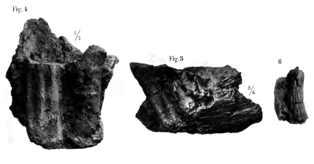 Fragmentary type mandible and tooth of Suchosaurus girardi